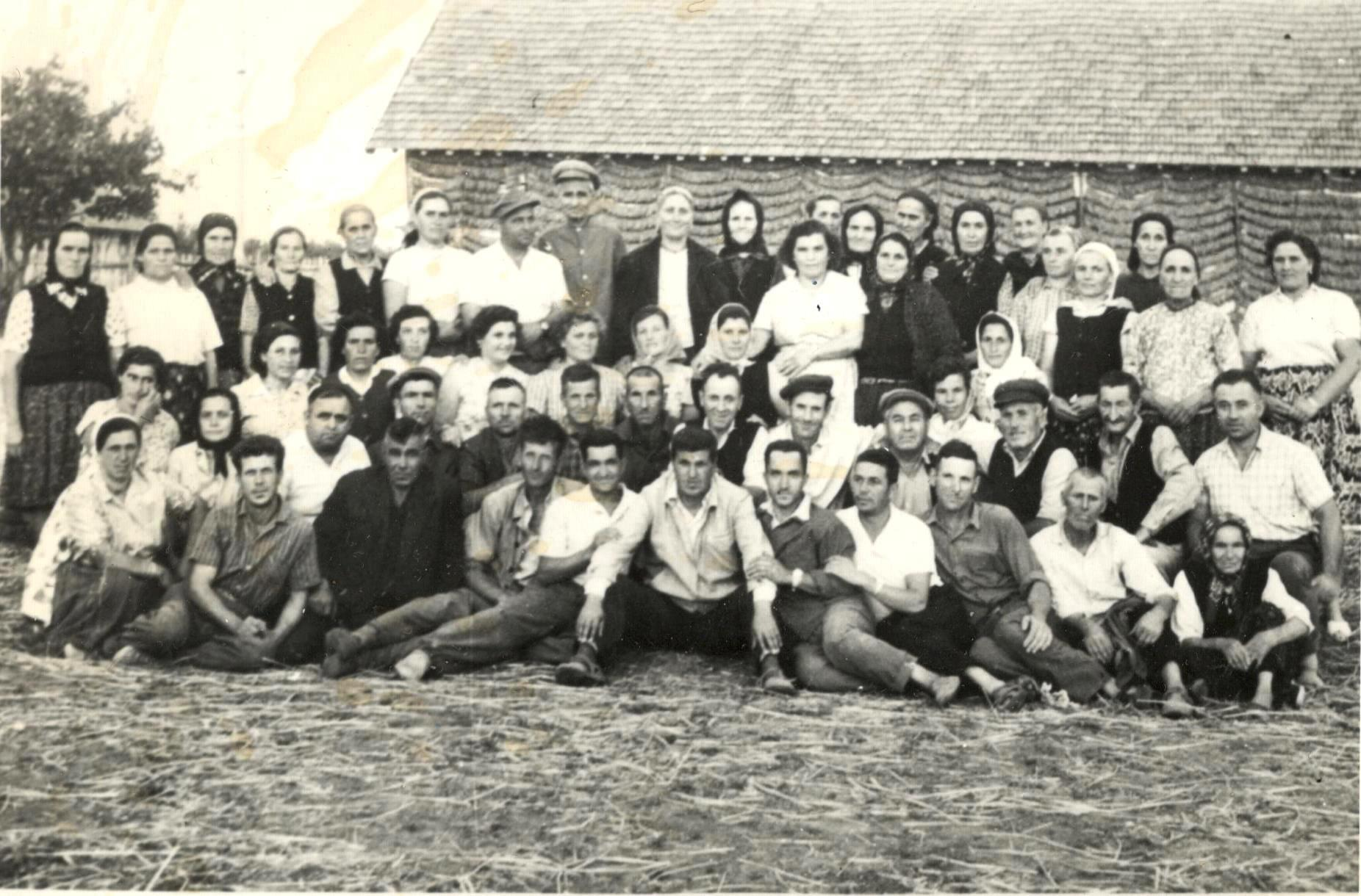 Cooperators that established the Agricultural Labour Cooperative Farm in Zvanartzi, Razgrad province.